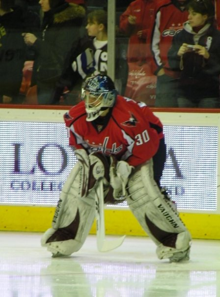 Michal Neuvirth warming up before his first home NHL win against the Atlanta Thrashers